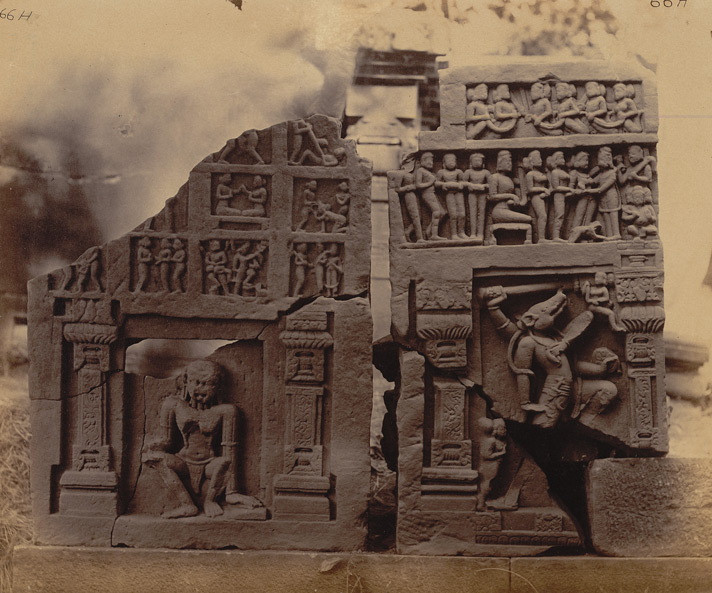 From the source, The Kankali Temple at Tigowa dates from the 5th Century, Gupta period and represents an early example of structural temple architecture of that time. The typical features of this period are the small square sanctuary with a flat roof and the adjoining porch with columns. The figures carved on the slabs in this view represent the goddess Kali and Vishnu as Varaha rescuing Bhudevi set in niches framed by pilasters with pot and foliage capitals. Over the figure of Vishnu there is a fragment of a panel depicting the myth of churning the milk ocean by the gods and demons.